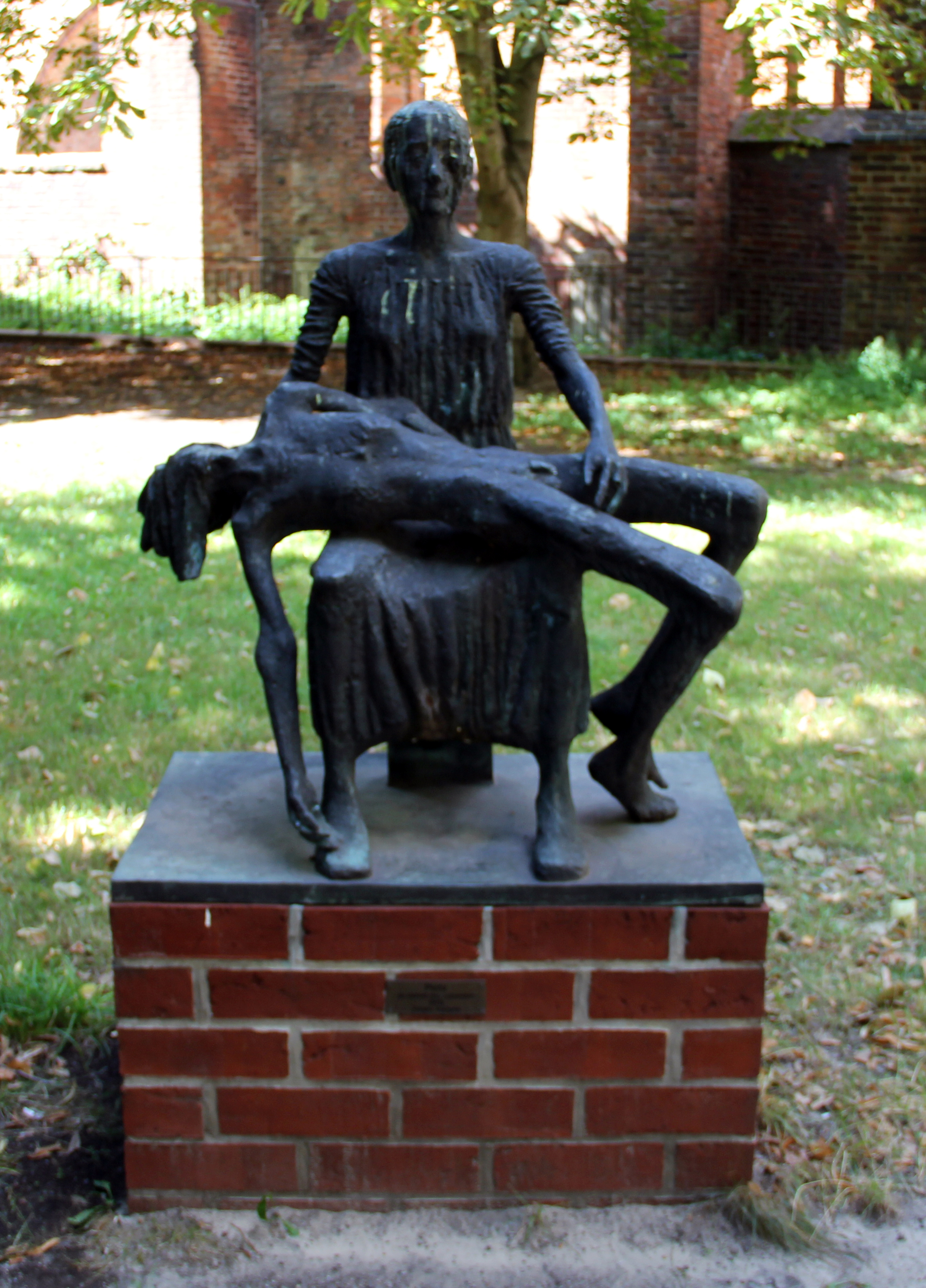 Sculpture, "Pieta" by Jürgen Pansow, 1978, Klosterstraße 71, Berlin-Mitte, Germany